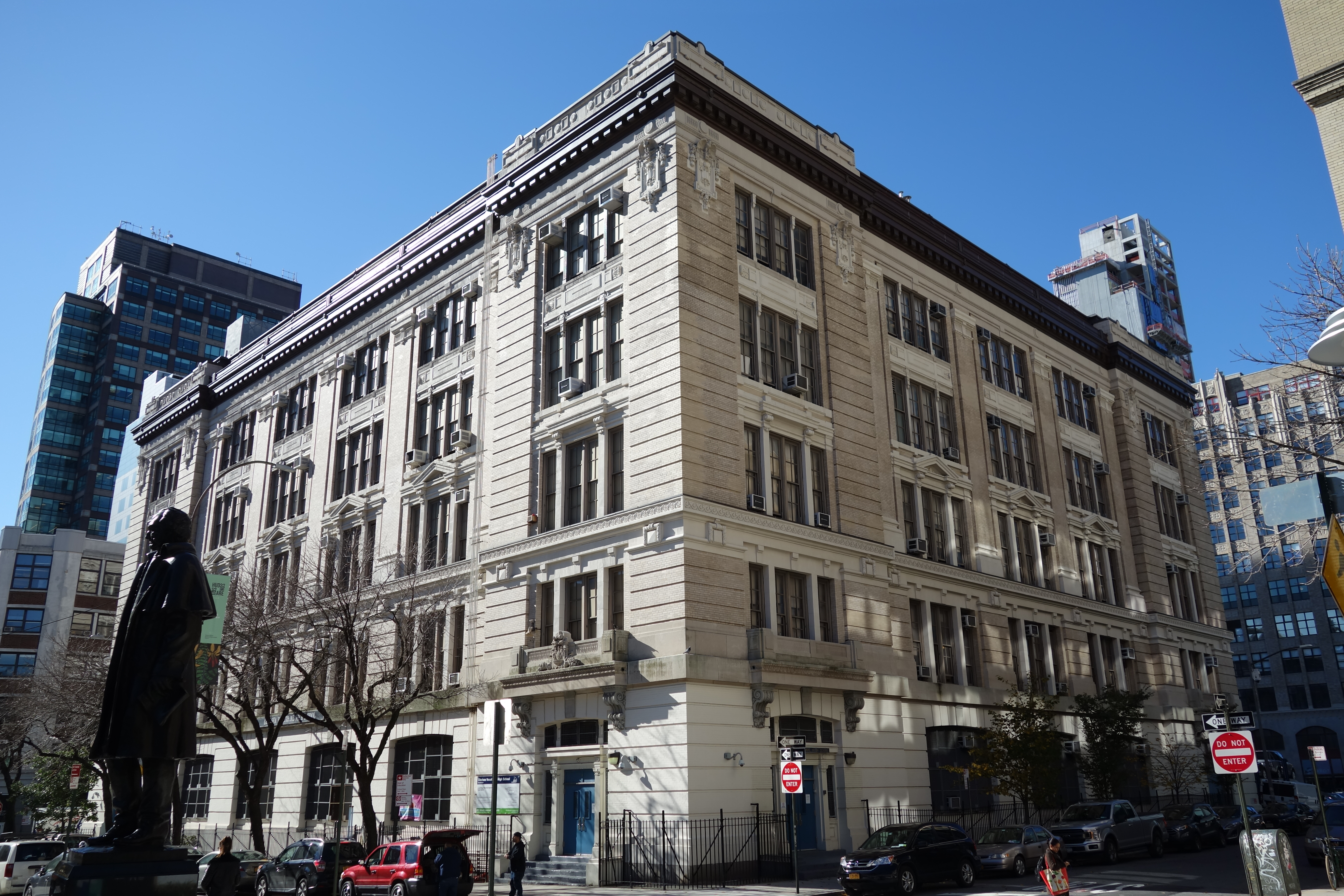 Looking from Spring Street Park at Chelsea Career and Technical High School (Chelsea Vocational High School), at the southwest corner of 6th Avenue and Dominick Street in SoHo / Hudson Square, Manhattan. The building is not actually located in the Chelsea, which is farther north around 23rd Street. The 1905-built building was originally an elementary school, and shares the general size and dimensions of other old elementary schools in the city.